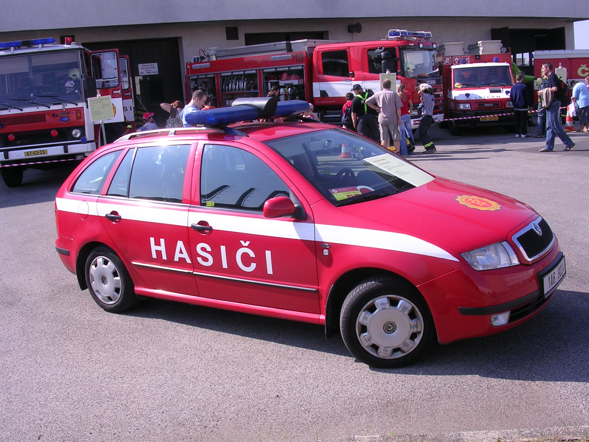 Třebonice, Prague, the Czech Republic. Open Doors Day in Zličín metro depot, metro firefighters presentation.